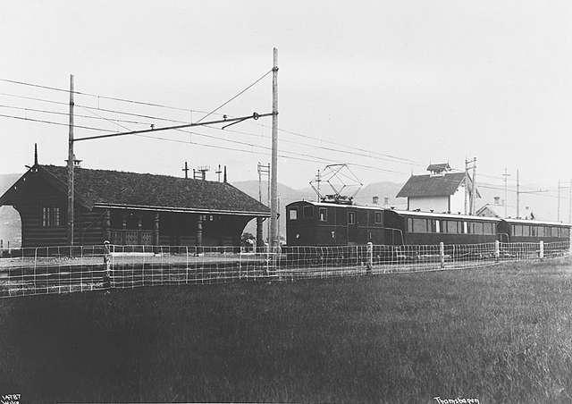 Bårdshaug railway station on Thamshavnbanen in Orkdal, Norway